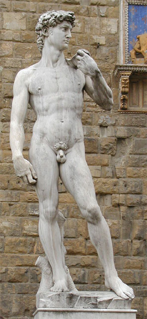 Replica of sculpture of David by Michelangelo in Florenz